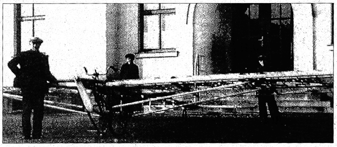 Josef Kabele and his Human powered aircraft, Czechoslovakia, 1934